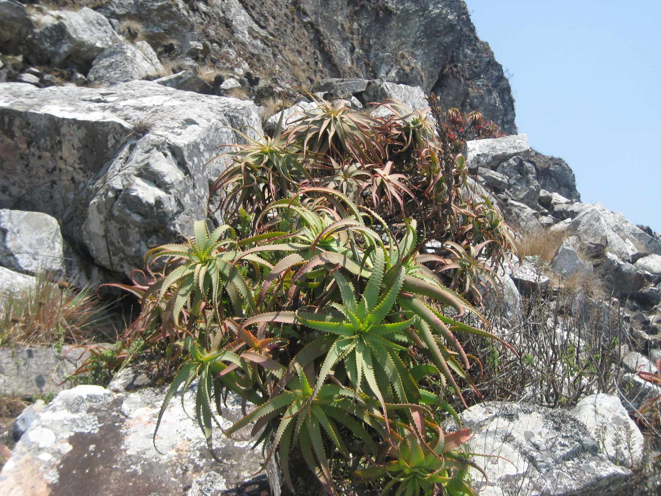 The Chimanimani Mountains in Mozambique, 1900 m.a.s.